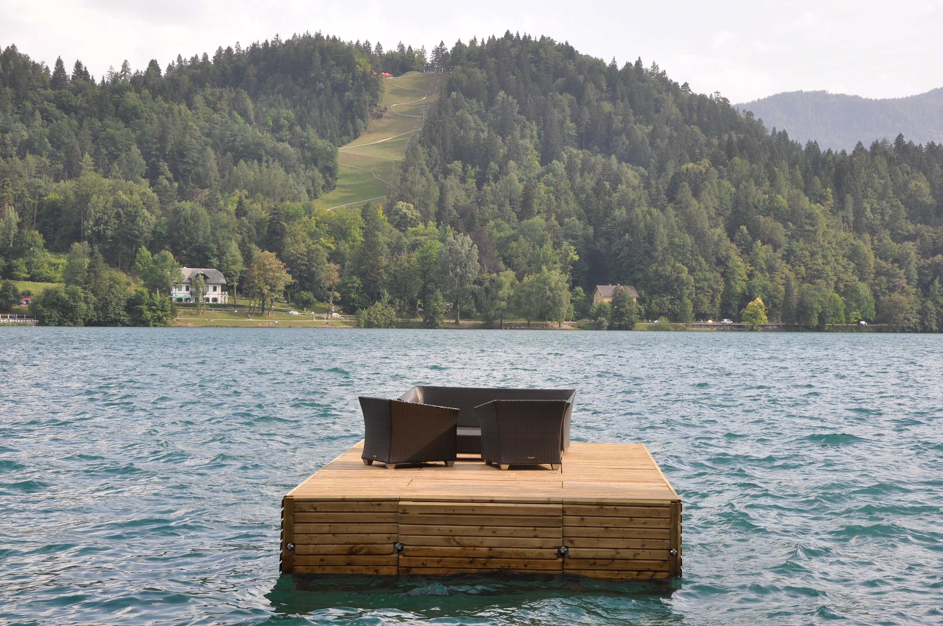 Bled ski grounds Straža. Slovenia.